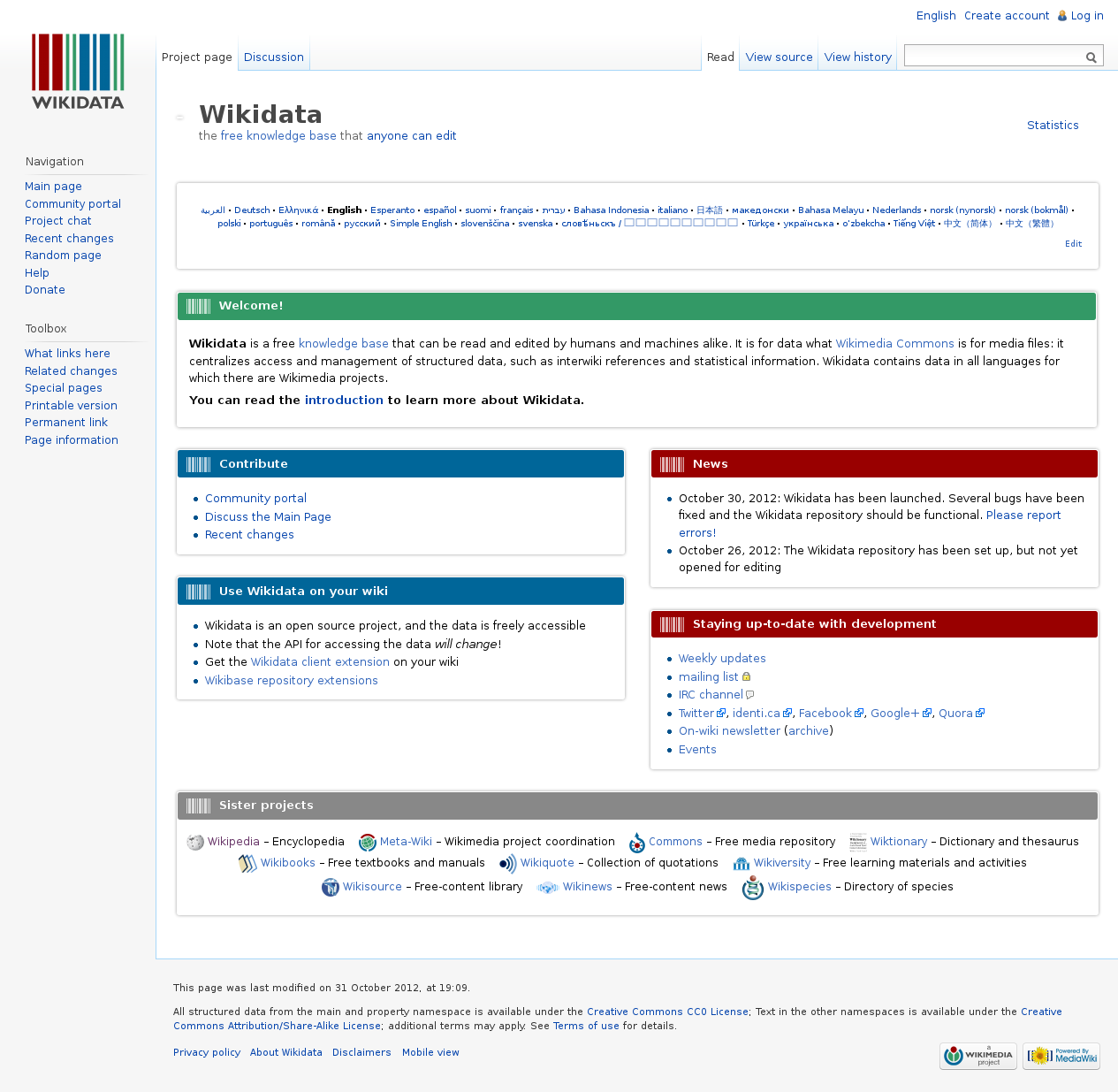 Screenshot of main page of Wikidata